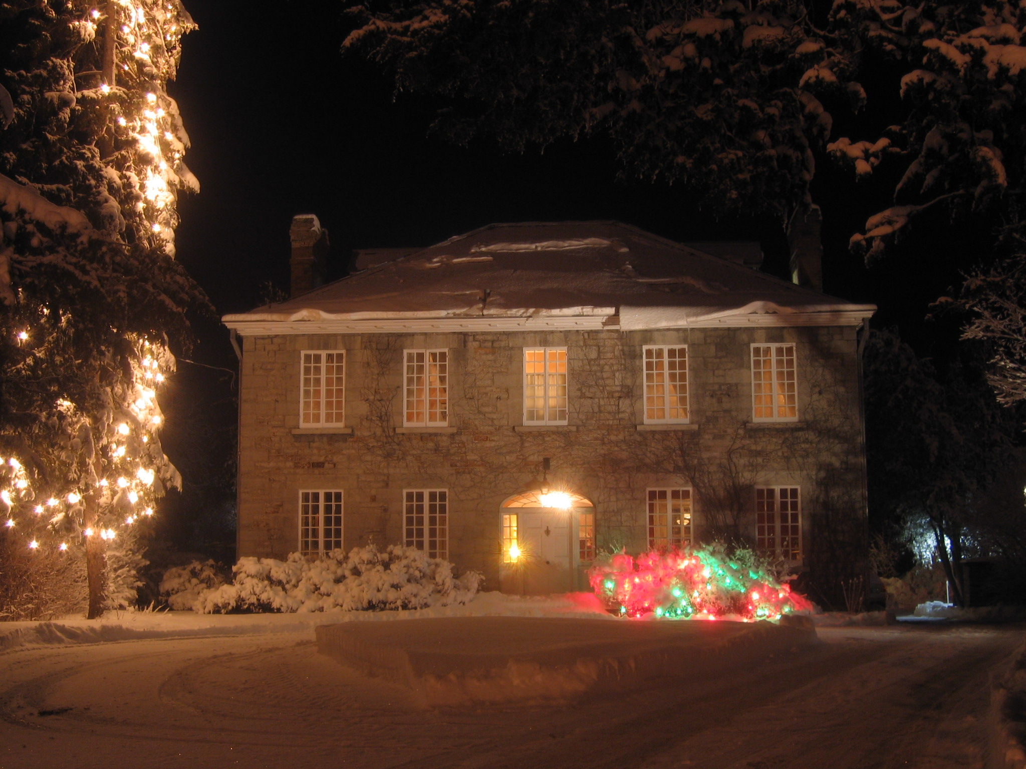 The Maplelawn, Ottawa, Canada, at night, January 2006.